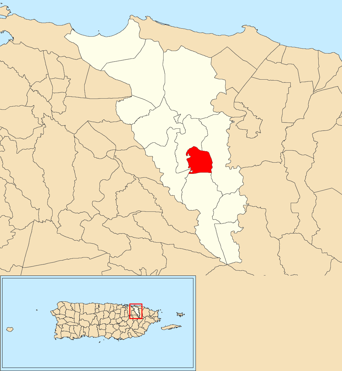 Santa Cruz, Carolina, Puerto Rico locator map